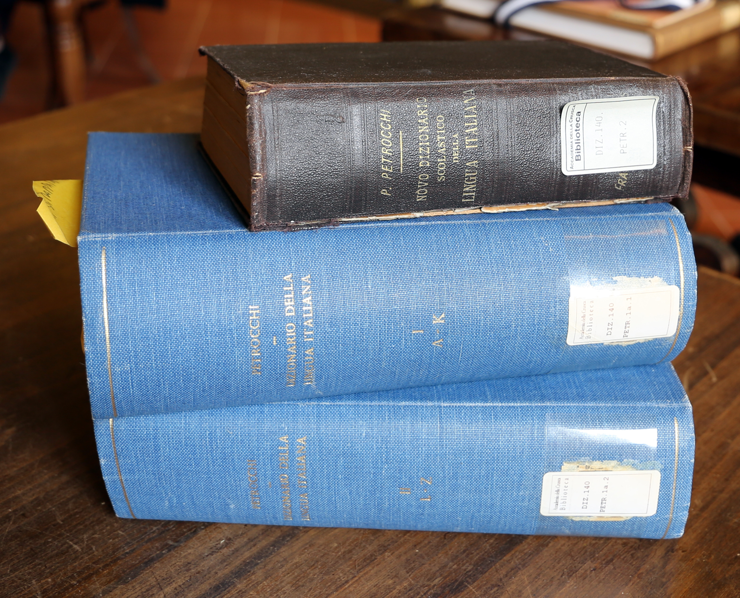 Accademia della Crusca Library